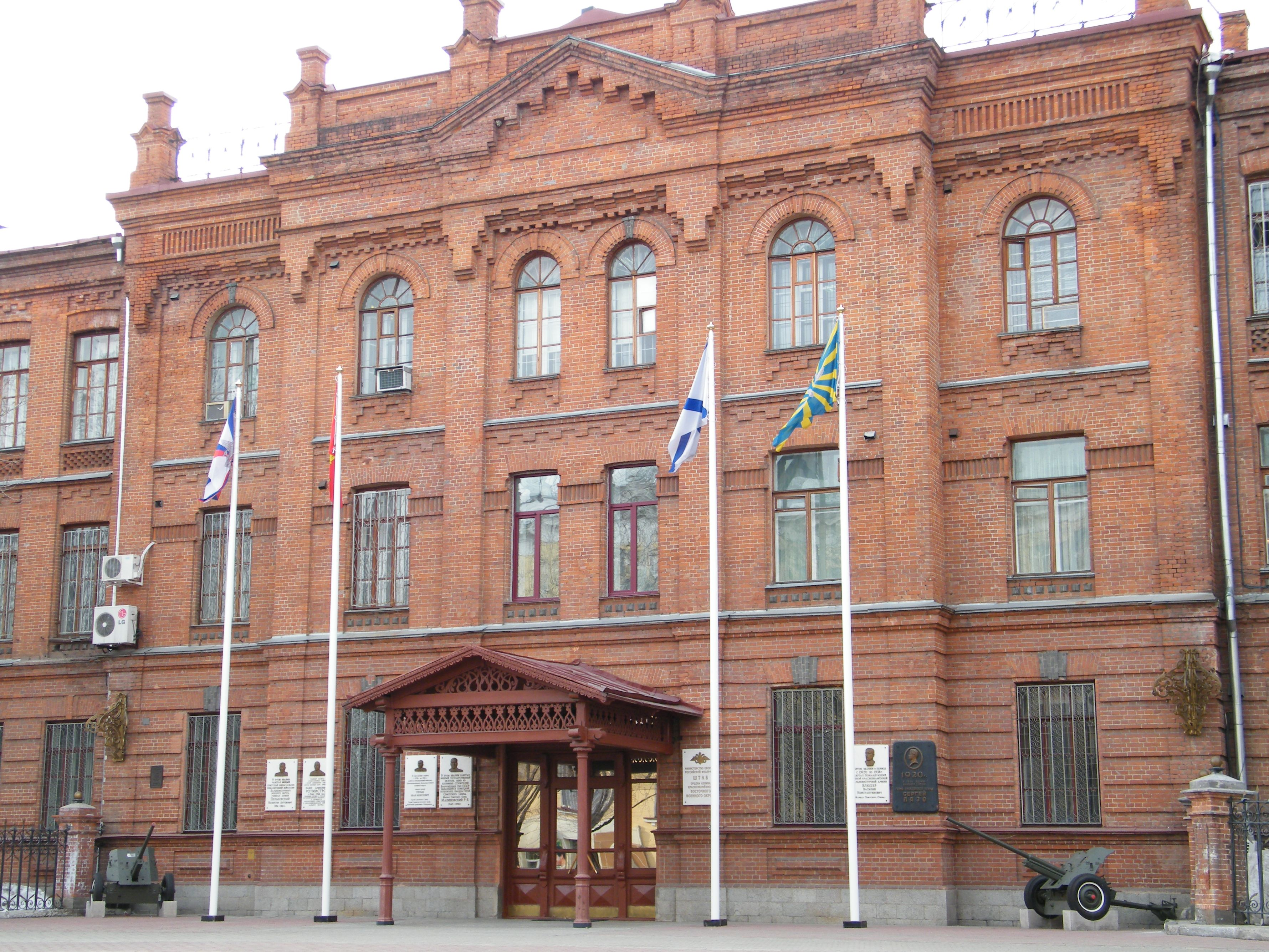 Штаб ДВО центр